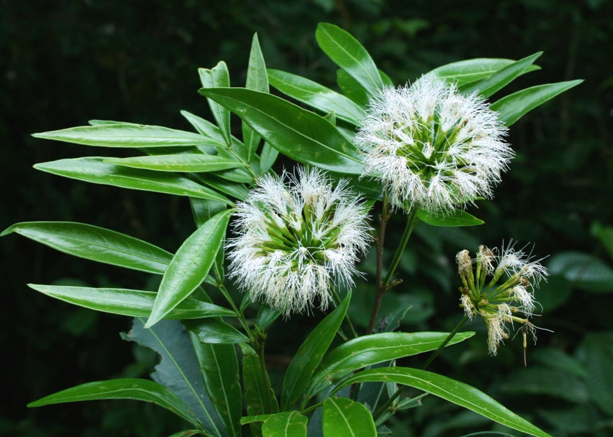 Flowering Inga sp. on Rio Tabaro, Venezuela